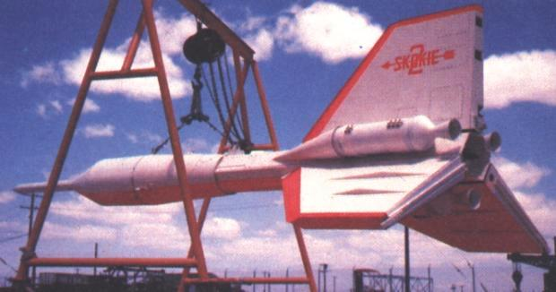 Cook Electric "Skokie 2" parachute test rocket in a gantry.